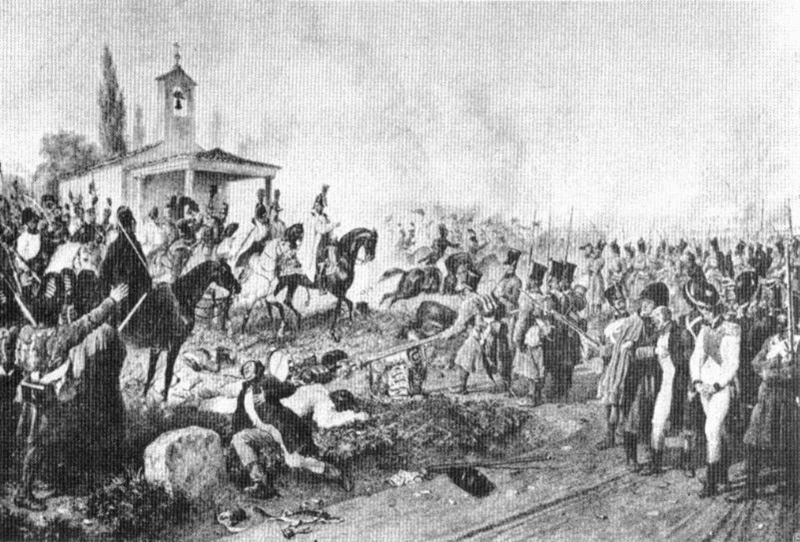 Plate 15. Archduke Charles and staff at the Battle of Caldiero